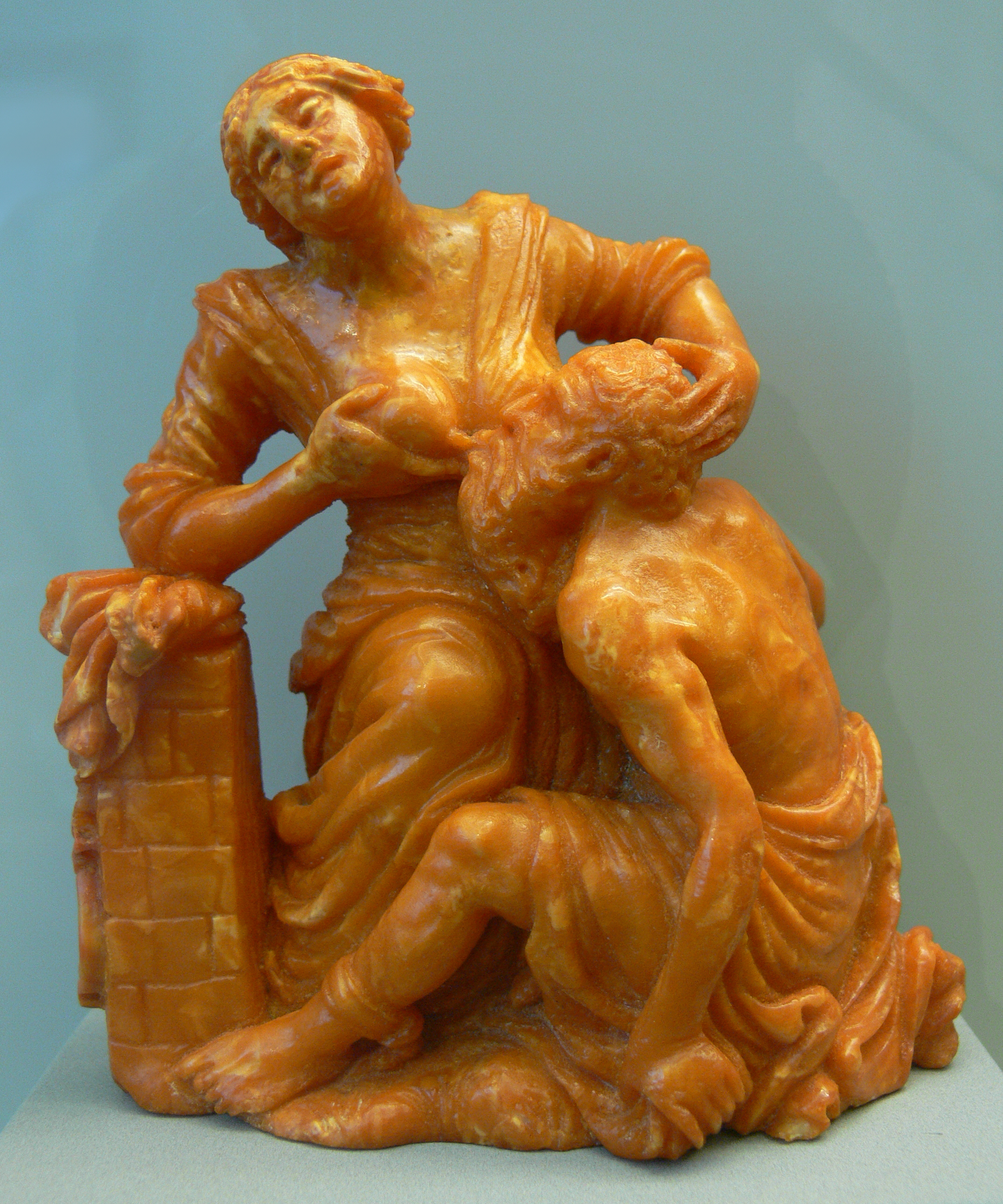 Christoph Maucher: Cimon and Pero, amber, Gdansk 1690. Kunstkammer Würth, Würth collection, inventory no. 5927. Photographed at the Bode-Museum Berlin, 2007.